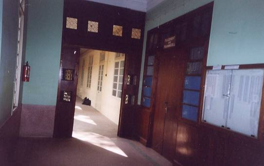 GCT Placement and Training Cell